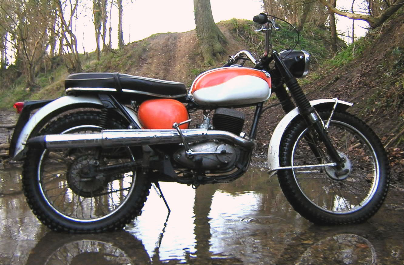 1970 BSA D175 The second from last BSA Bushman ever built Kieran Richard Moles, my own work, free use